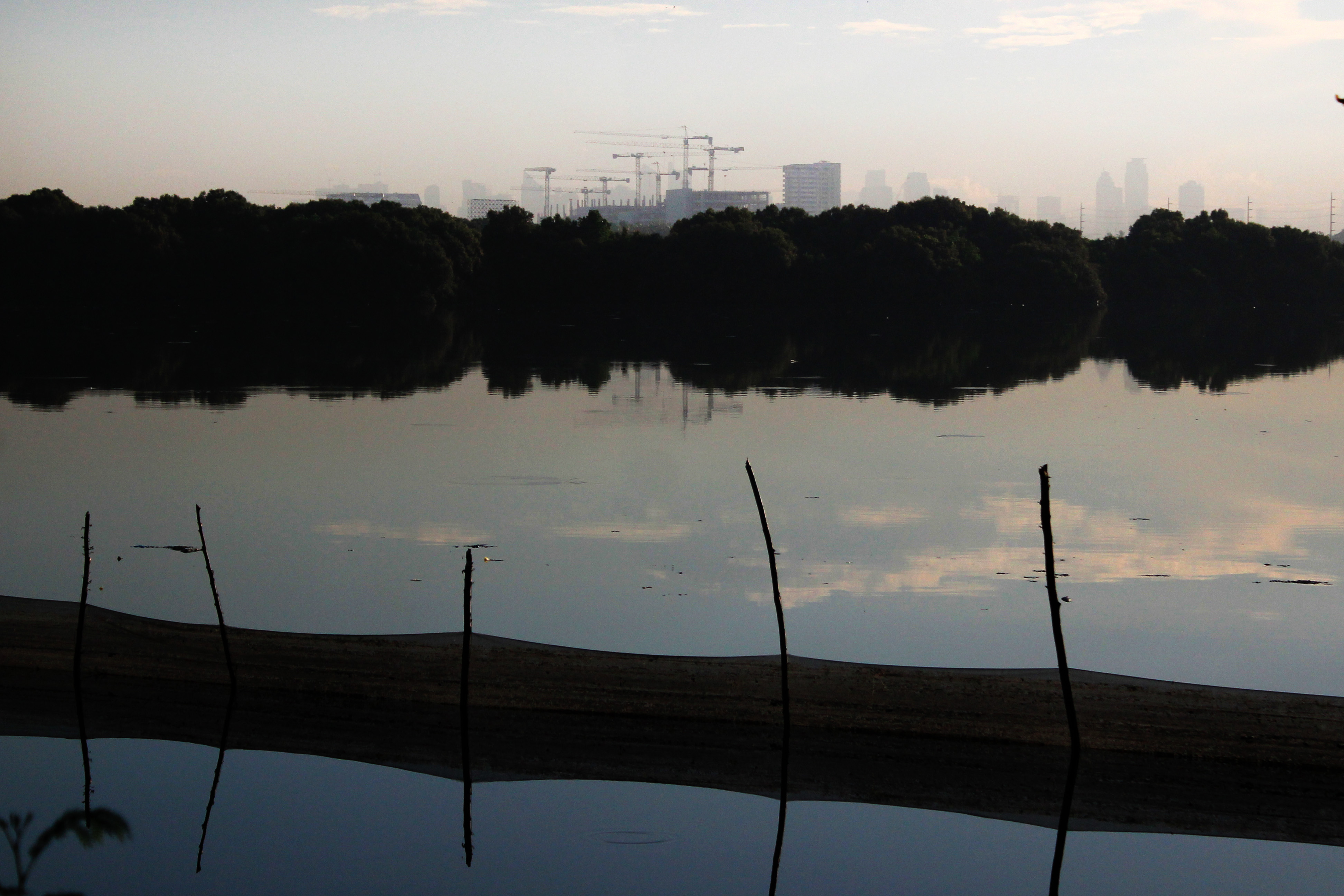 Tower cranes marks looming urbanization near the Las Piñas-Parañaque Critical Habitat and Ecotourism Area (LPPCHEA)